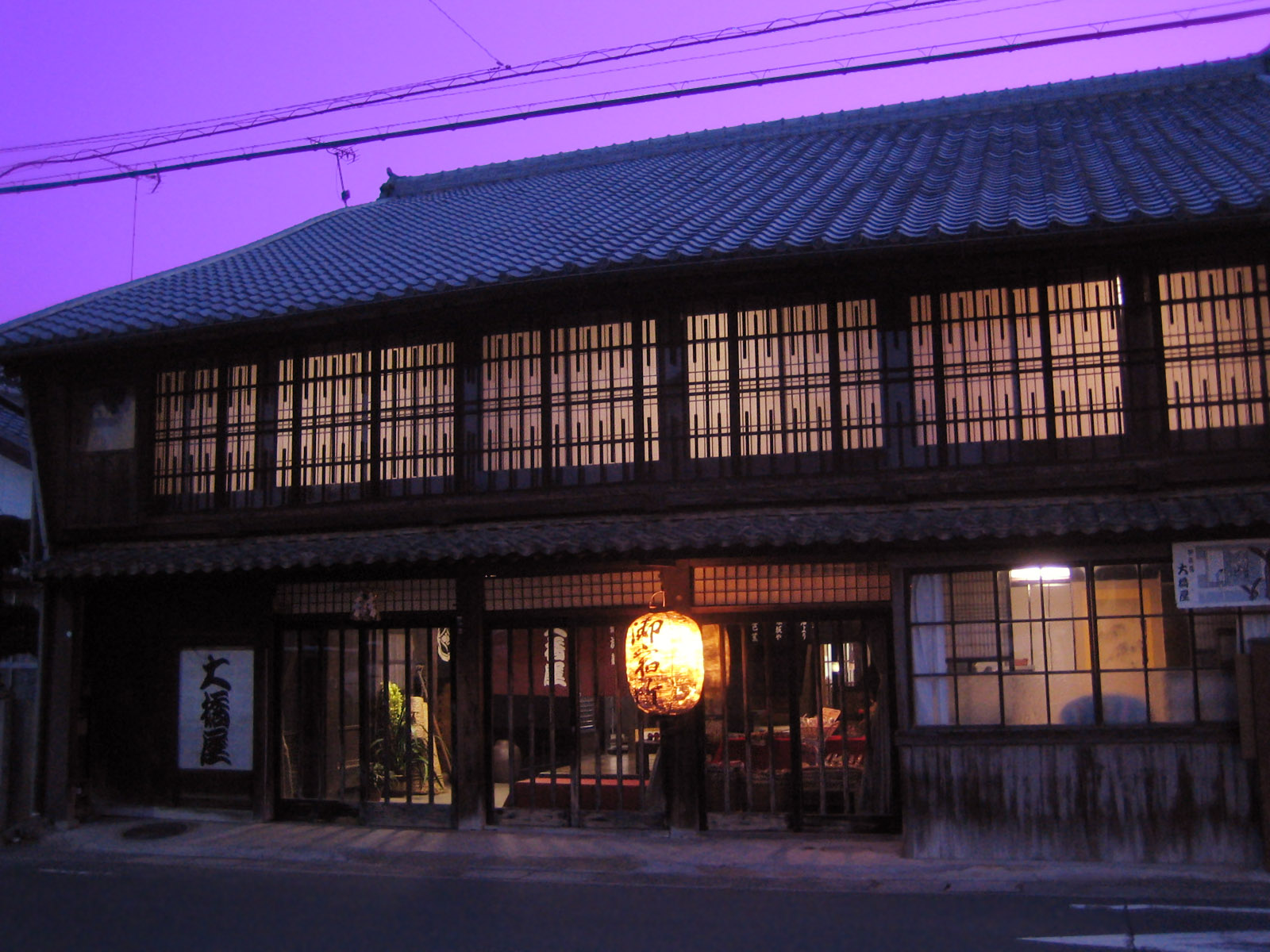 Oohashiya (大橋屋), the Japanese inn build in about 1716, at Akasaka-cho, Toyokawa, Aichi, Japan